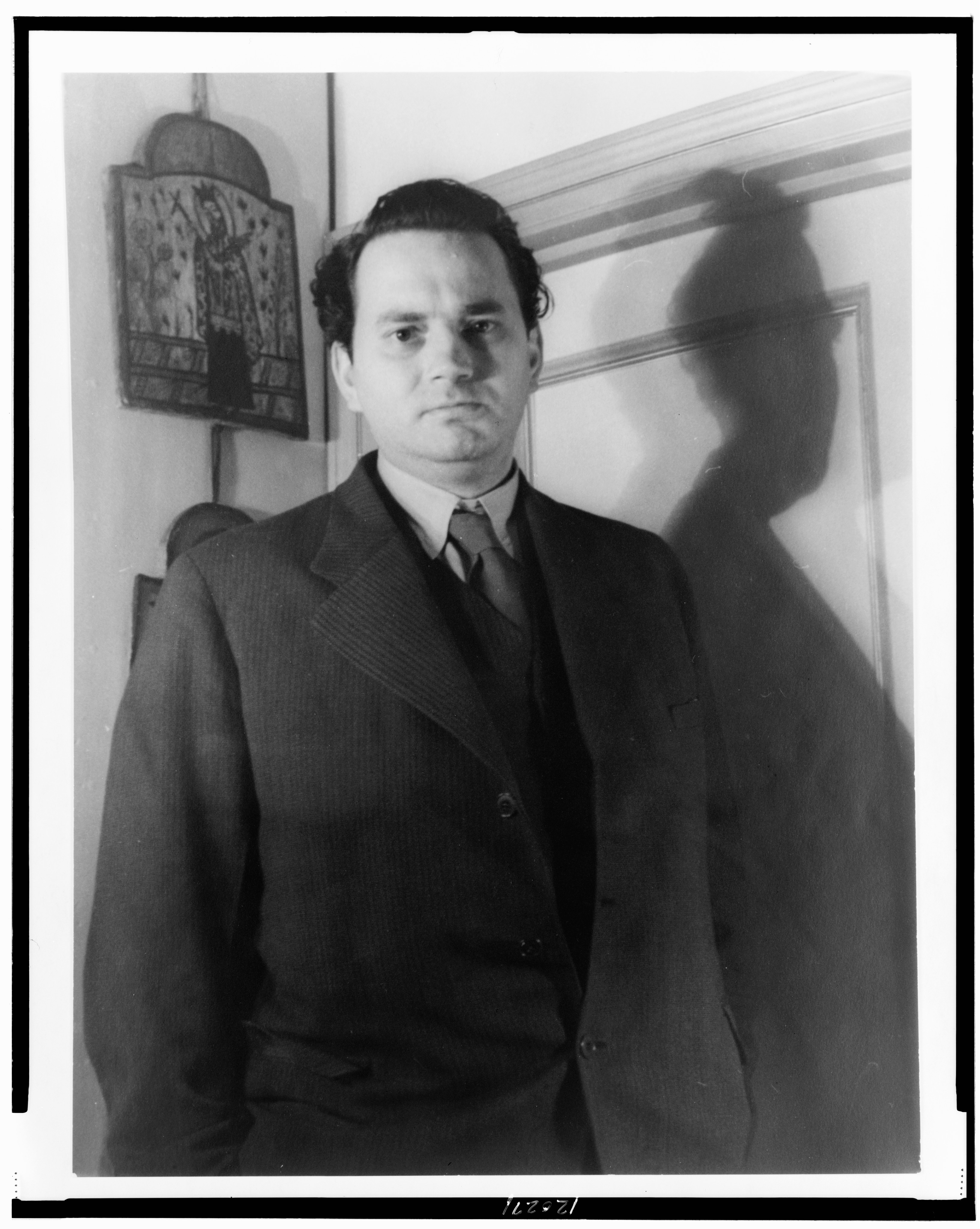 Thomas Wolfe, 1937